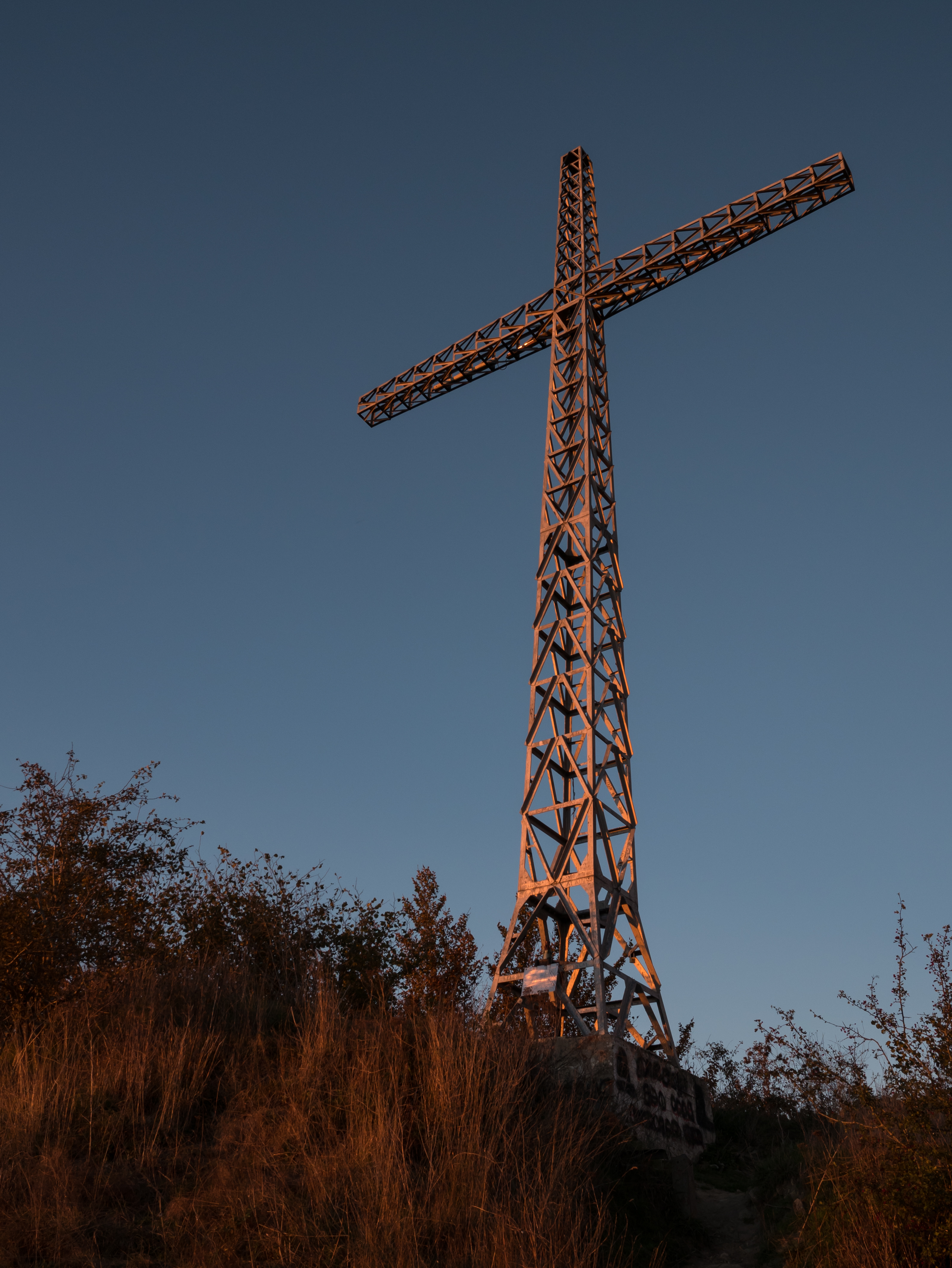 Cross on the summit of Zaldiaran during sunset. Álava, Basque Country, Spain